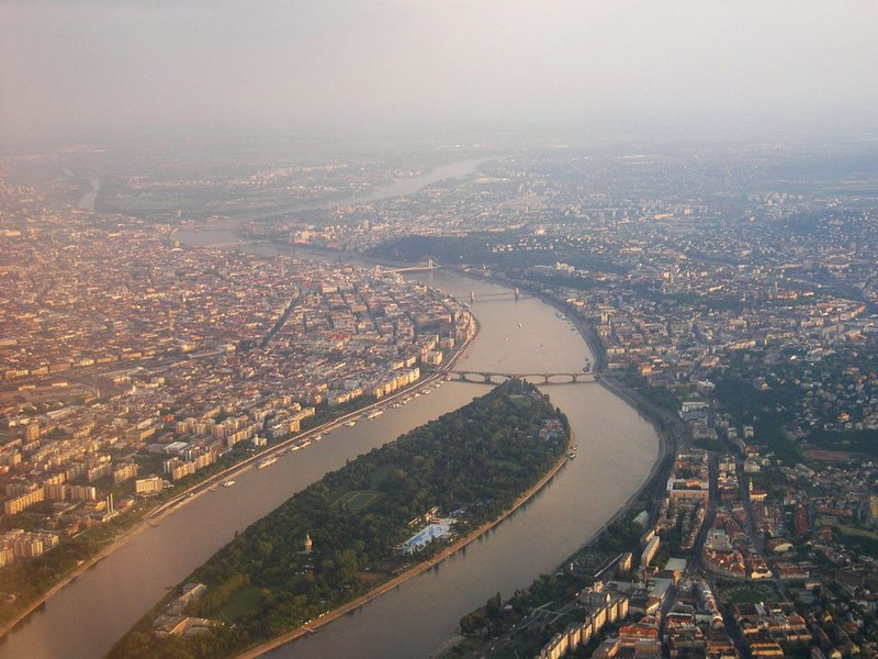 Budapest in the evening. On the left side: Pest; on the right side: Buda; in the middle: the Danube and Margaret Island Brendel Matyas